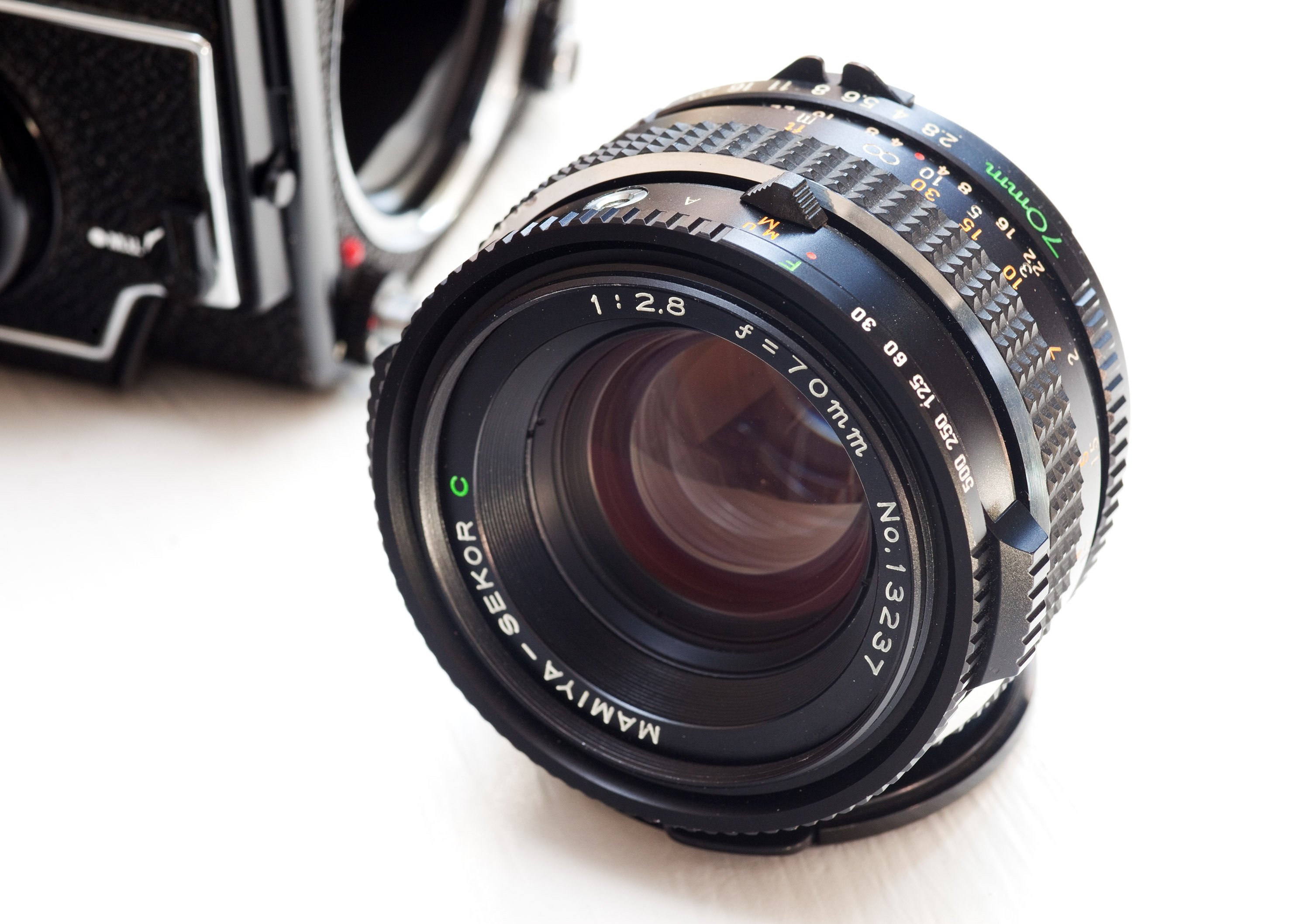 A Mamiya 70mm f/2.8 Leaf Shutter lens for the Mamiya 645 system.